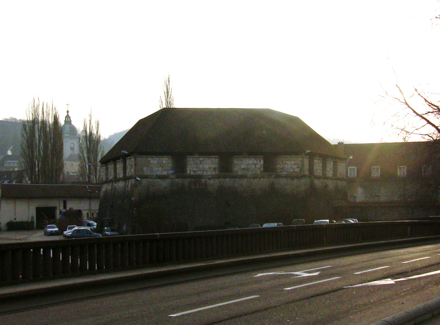 Bregille tower, in Besançon (Doubs, France).